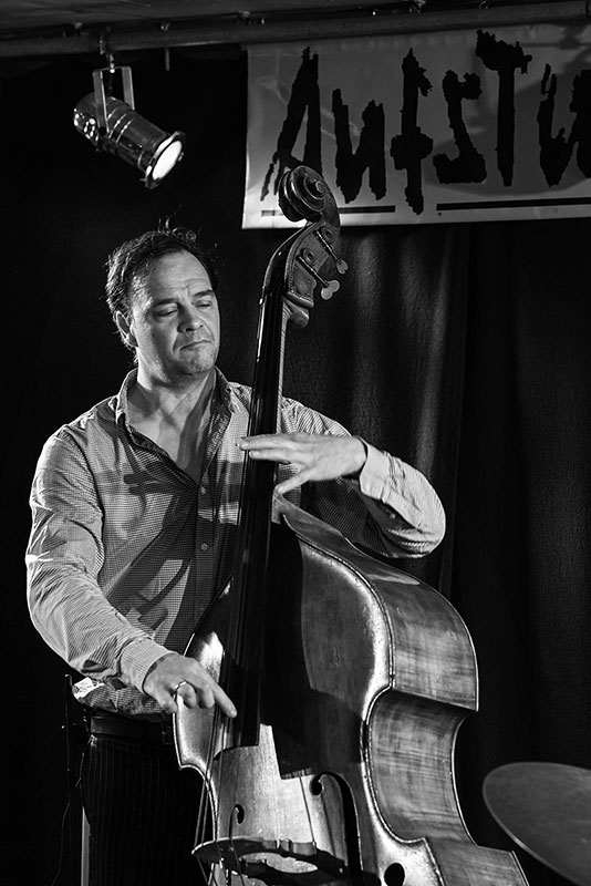 Jan Roder at Jazzkeller 69 Aufsturtz in Berlin 2018